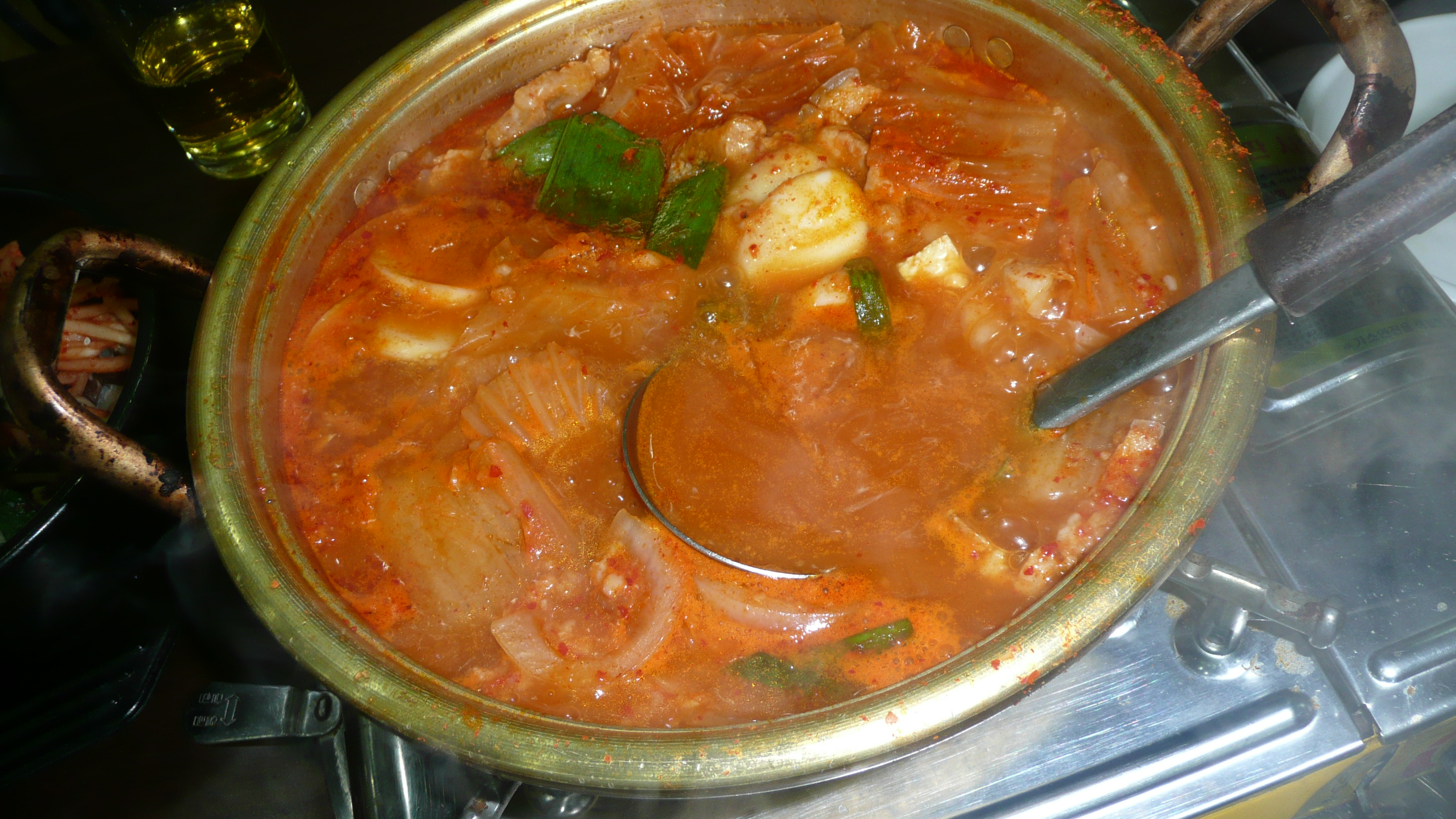 Kimchi soup with meat and tofu in a restaurant in Daejeon, Korea